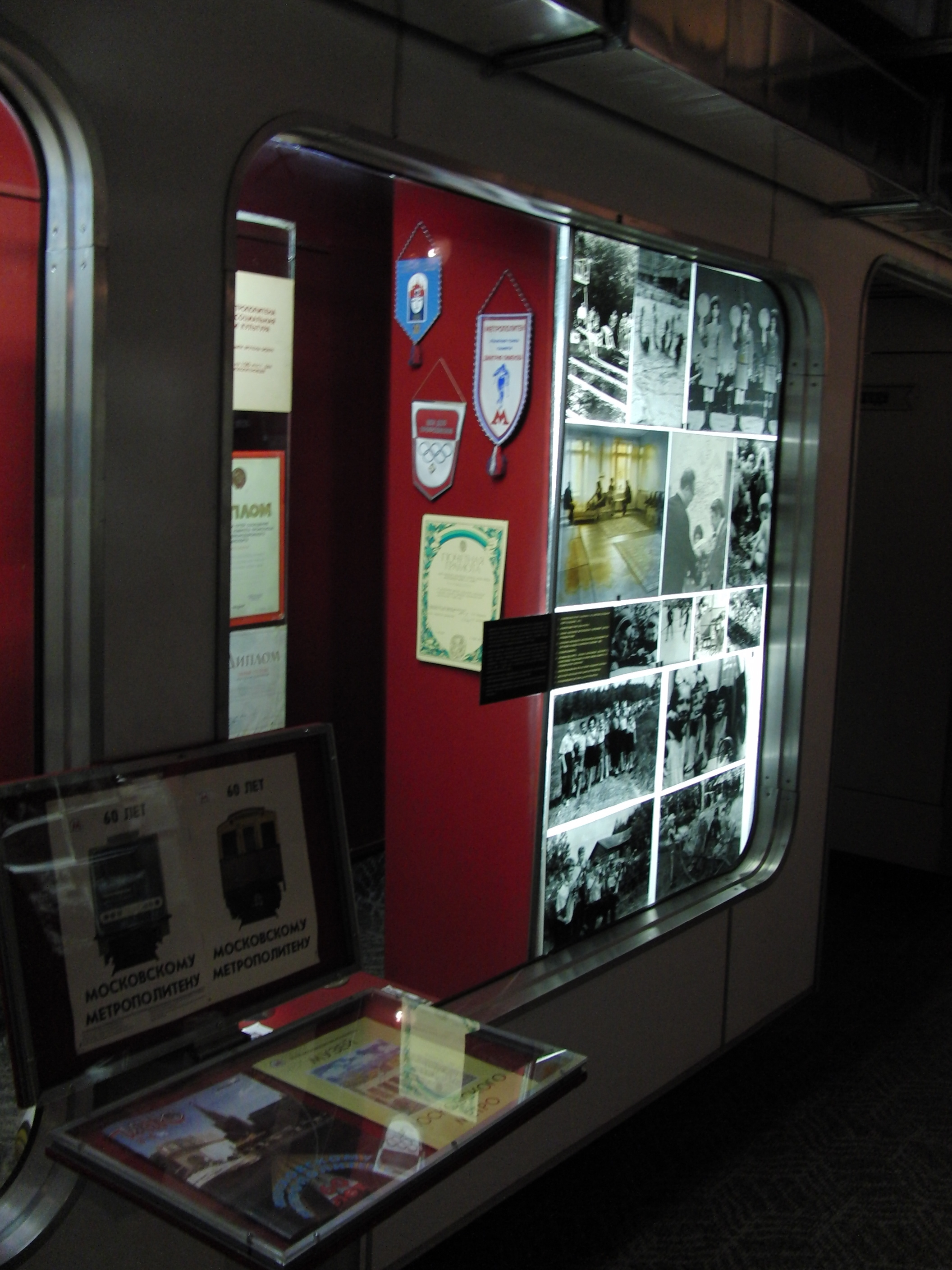 Sportivnaya, People's museum of Moscow Metro